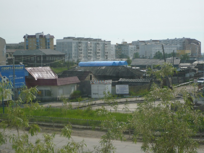 Yakutsk – View of the city from a hotel room.